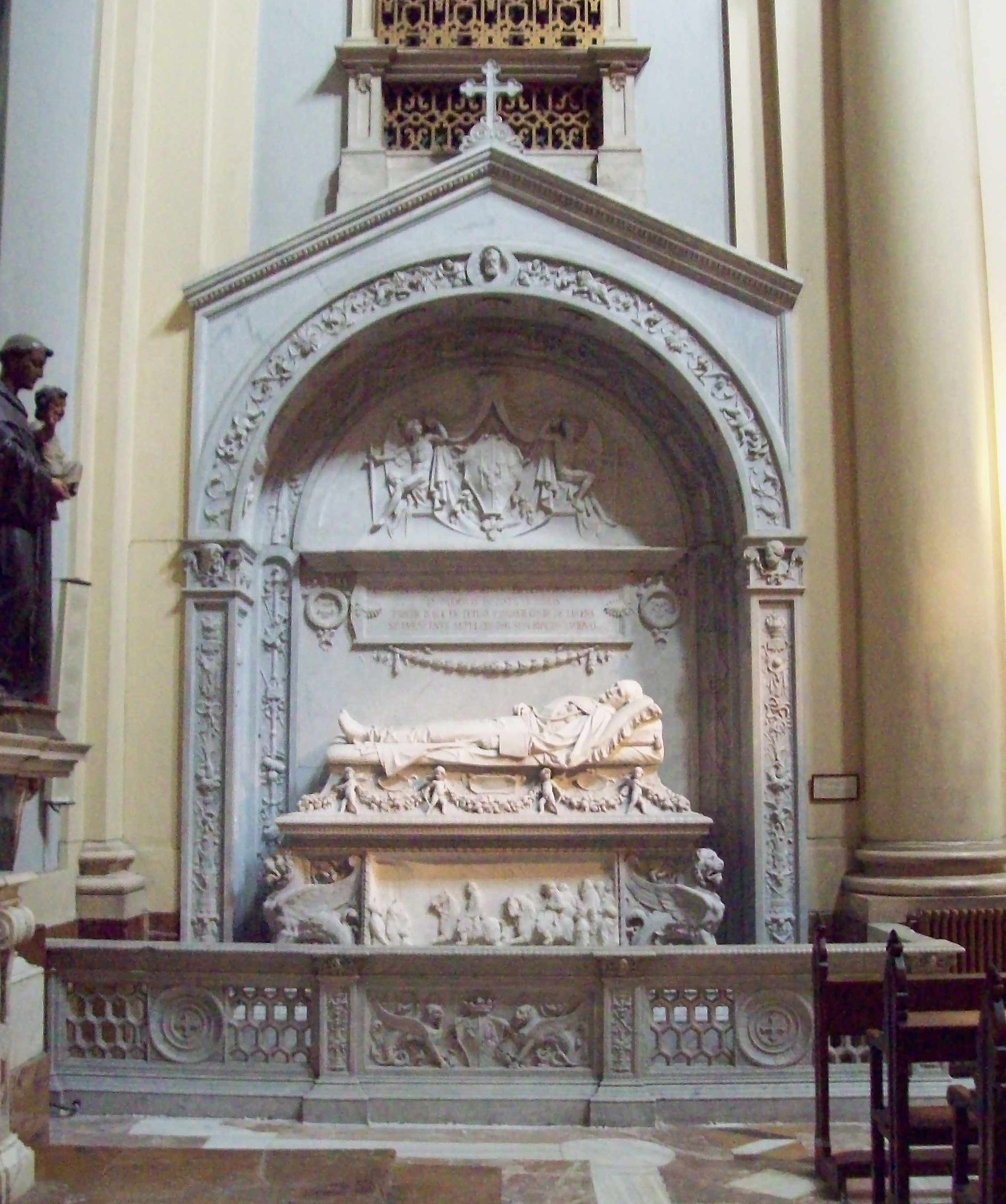 Mausoleum of Leopoldo O'Donnell (1809–1867) at St. Barbara's Church in Madrid (Spain).